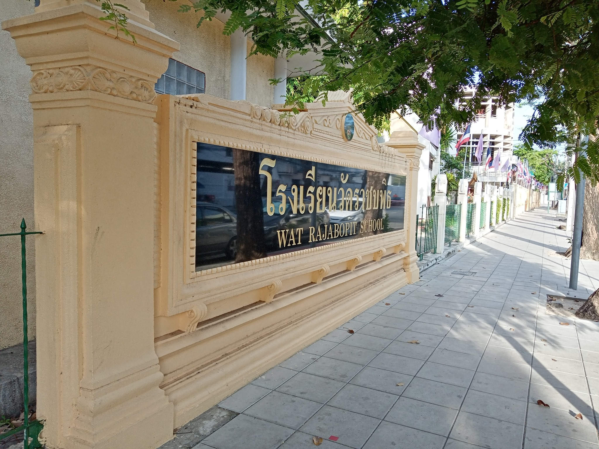 In front of Wat Rajabopit School.